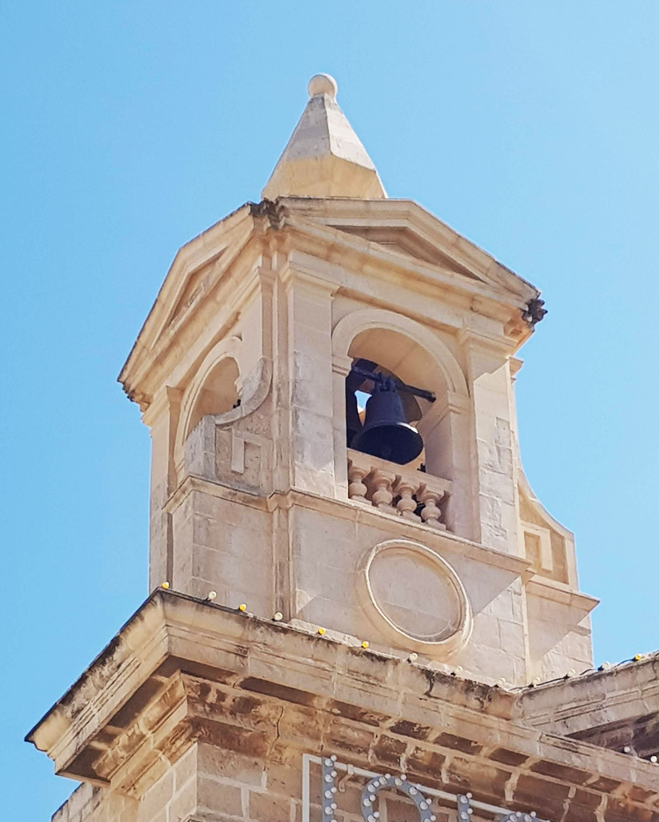 Bell tower of the Old Parish Church of St. Venera in St. Venera Square, Santa Venera, Malta This media is about Maltese cultural property with inventory number 00199.